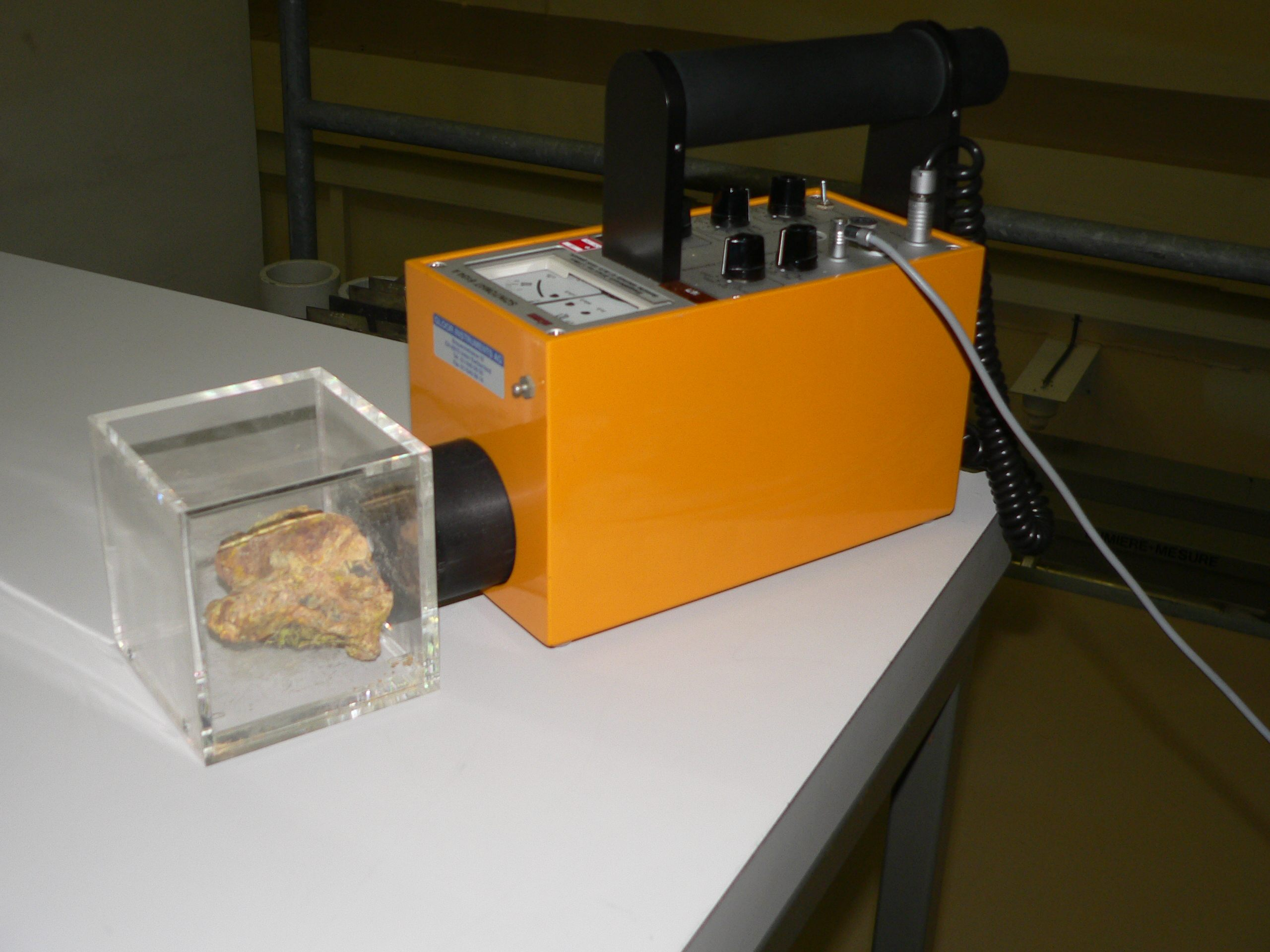 Nuclear installations at the EPFL CROCUS Reactor; CAROUSEL experiments; miscalenous experiments and manipulations; detectors and instruments. Scintillation detector and measurement of a radioactive source (uranium-rich mineral) Wholehearted thanks to René Frueh, chief of operations of CROCUS, for devoting a whole hours to open doors of this universe and explain technical details.